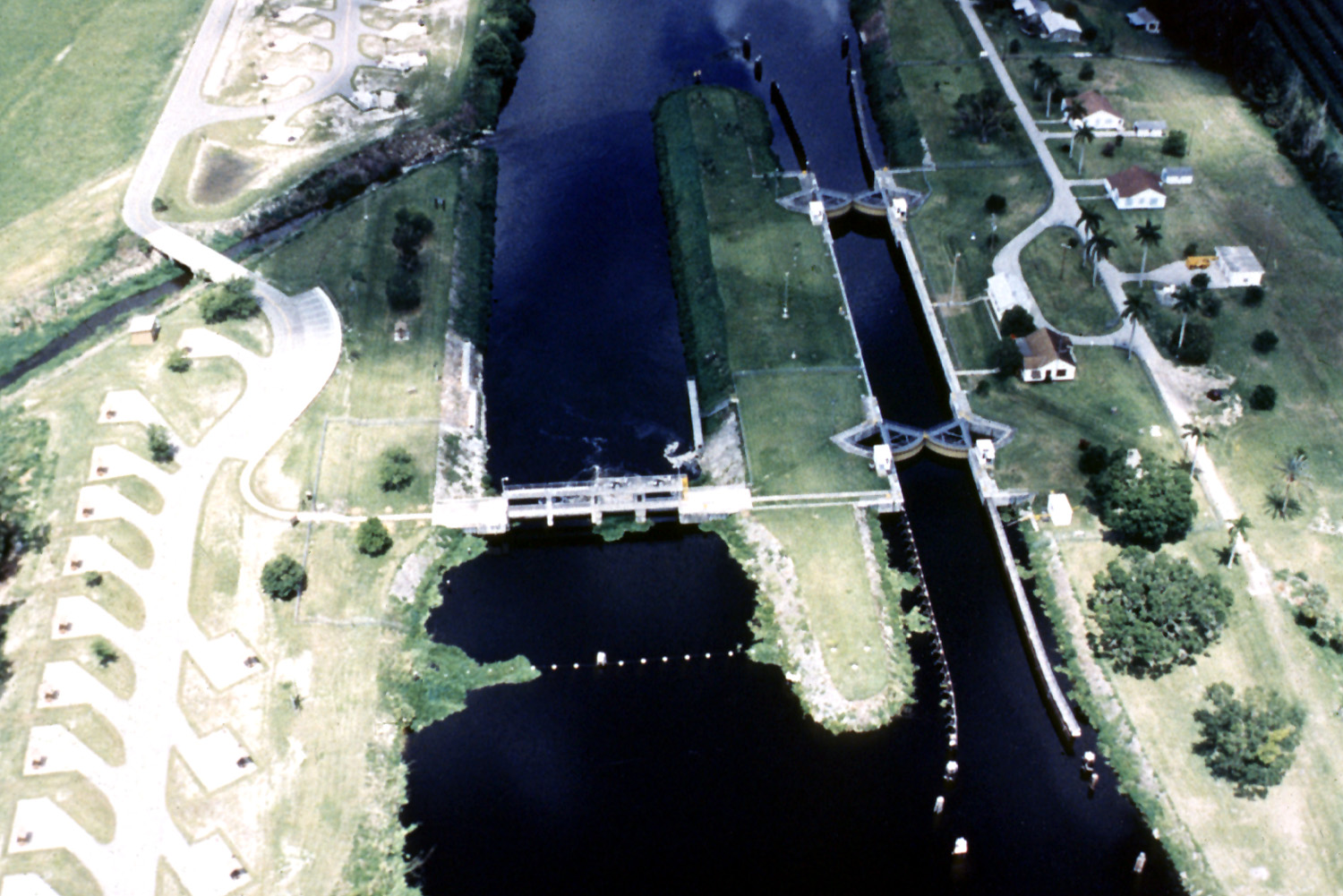 Ortona Lock and Dam on the Caloosahatchee River, which is a part of the Okeechobee Waterway in central Florida, USA. The lock and dam are located in Glades County near LaBelle, Florida. Coordinates: 26°47′20.26″N 81°18′17.24″W / 26.7889611°N 81.3047889°W